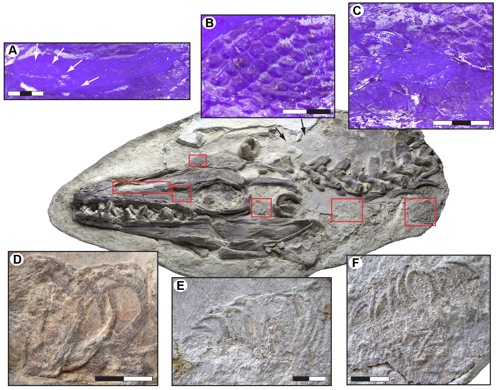 Selected soft tissue structures in the head and neck region of LACM 128319. (A) Close up of the left narial opening under UV light showing skin impressions (scales) covering large parts of the osseous nasal aperture. Arrows indicate the inferred relationship of the fleshy nostril (area without skin covering) to the bony nostril. (B) Scale impressions on the frontal under UV light. (C) Scale impressions on the prefrontal under UV light. (D) Tracheal rings exposed in the left lateral temporal fenestra. (E) Tracheal rings below the cervical vertebral column. (F) Two parallel strings of bronchial rings located below the anteriormost dorsal vertebra. Scale bars equal 3 cm (A, C) and 2 cm (B, D–F), respectively.